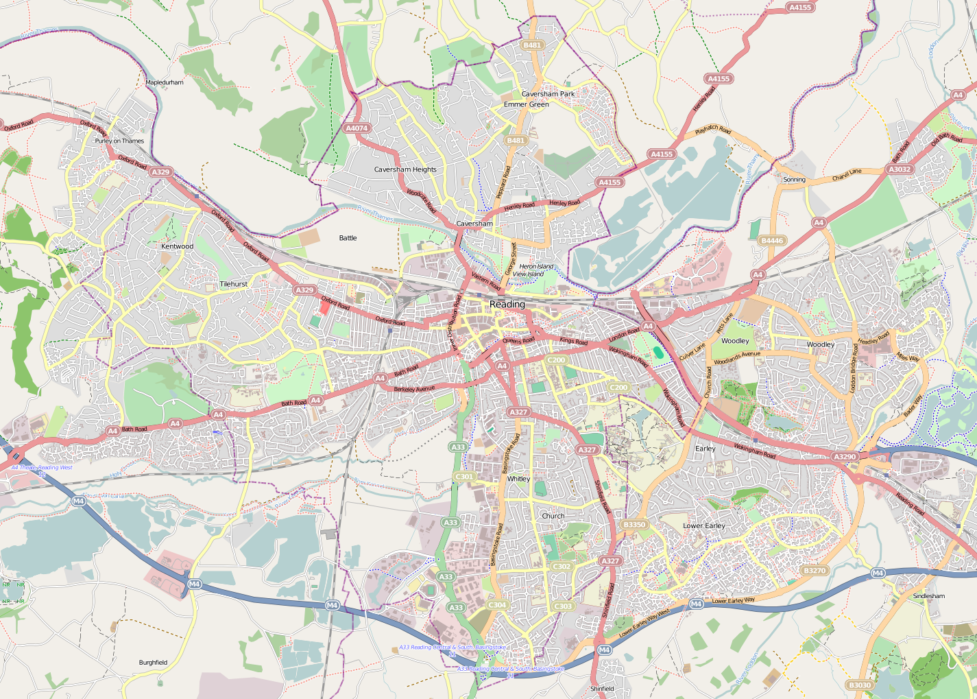 Map of Reading Geographic limits: N: 51.4959° S: 51.4088° W: -1.0688° E: -0.8734°